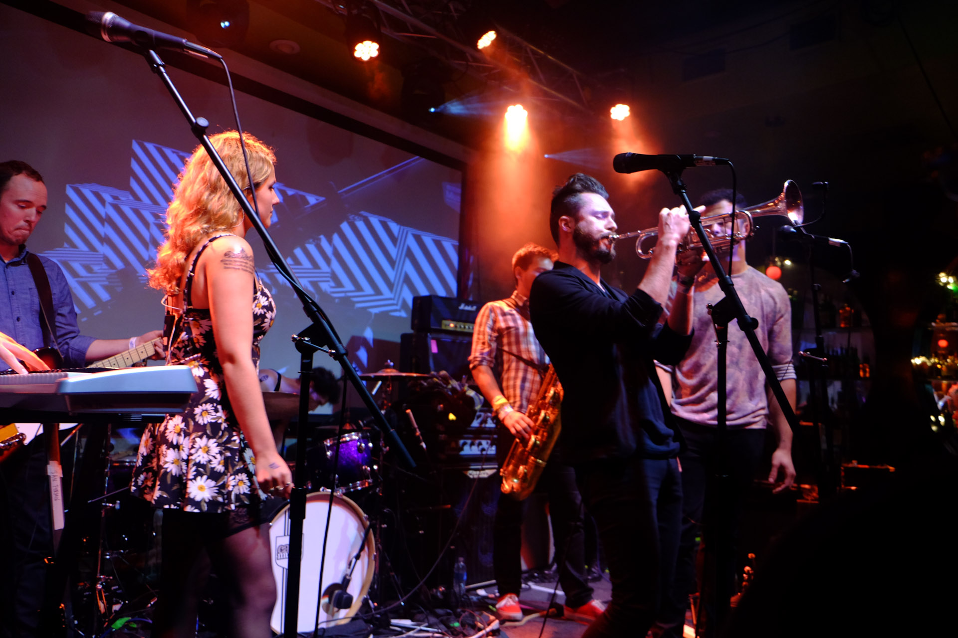 San Fermin performing at SXSW in 2014